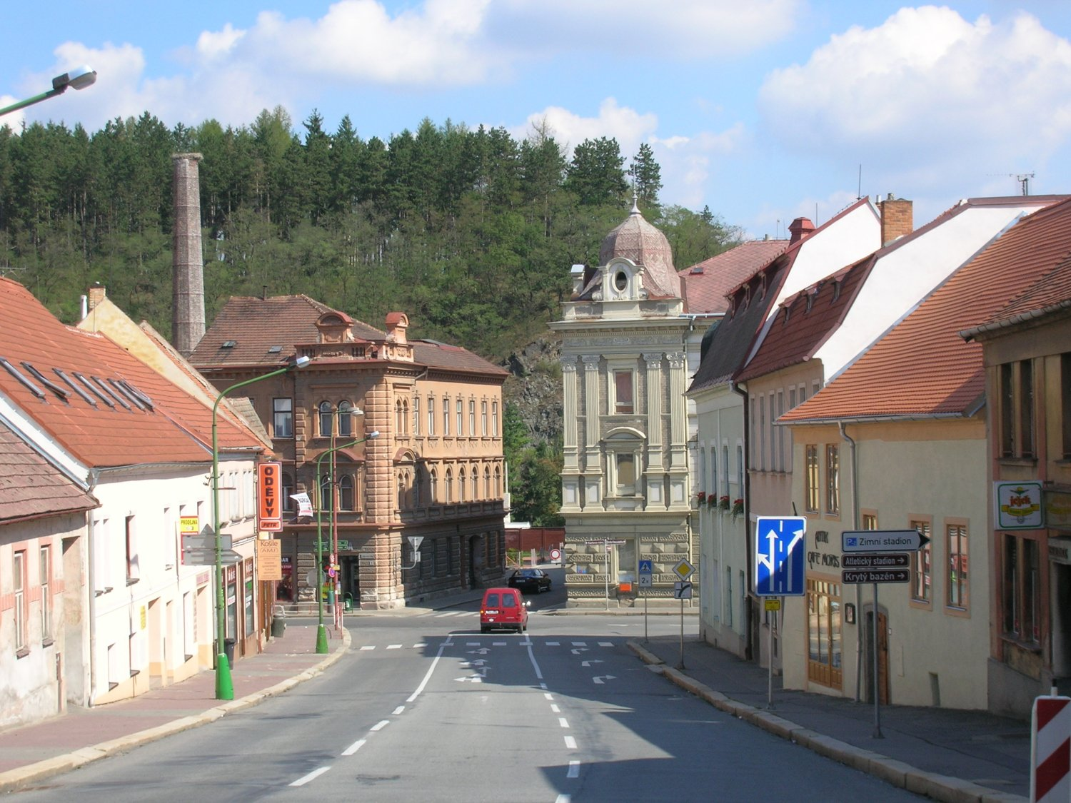 Třebíč-Jejkov. Bedřich Václavek's street